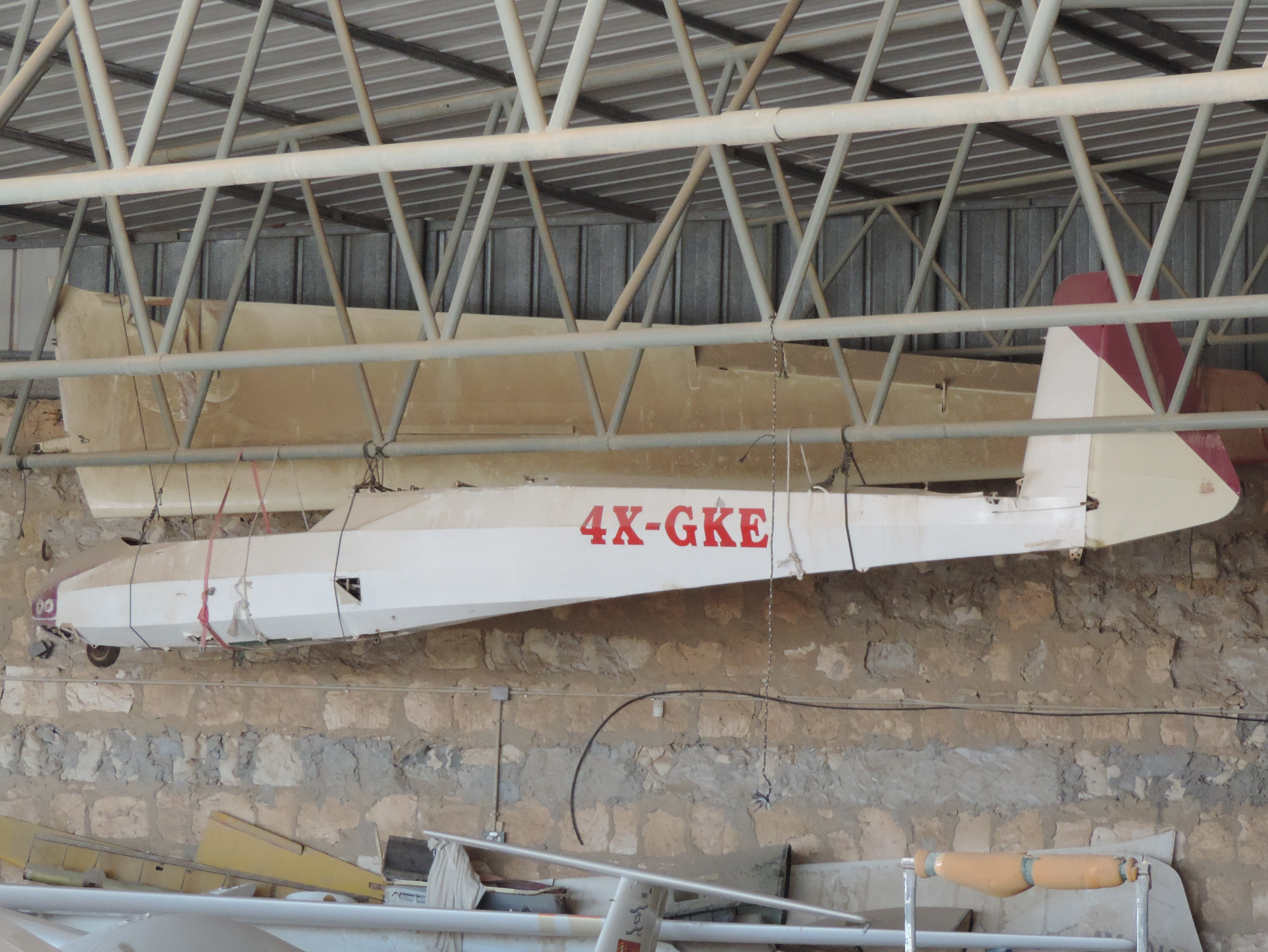 4X-GKE at Sde Teyman airstrip.